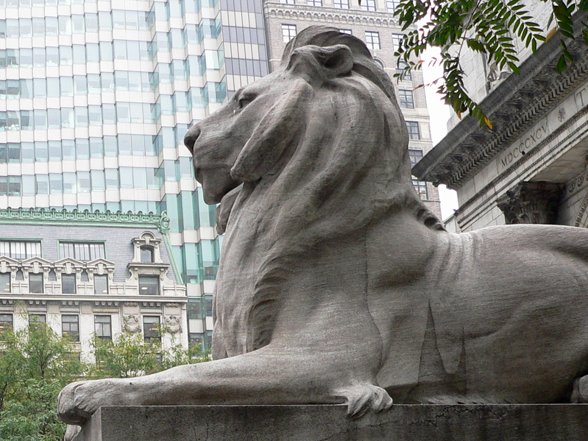 The lion statues outside the Main Branch building of the New York Public Library are among the most famous landmarks in New York City. The lions were designed by sculptor Edward Clark Potter in 1911, and were carved from Tennessee Pink marble by New York'sin 1916. As you face the main entrance to the building, the lion on the left is named Patience, and the lion on the right is named Fortitude. The statue in the photo is Fortitude.Photo taken with a Panasonic Lumix DMC-FZ20 in the borough of Manhattan, New York City, NY, USA.